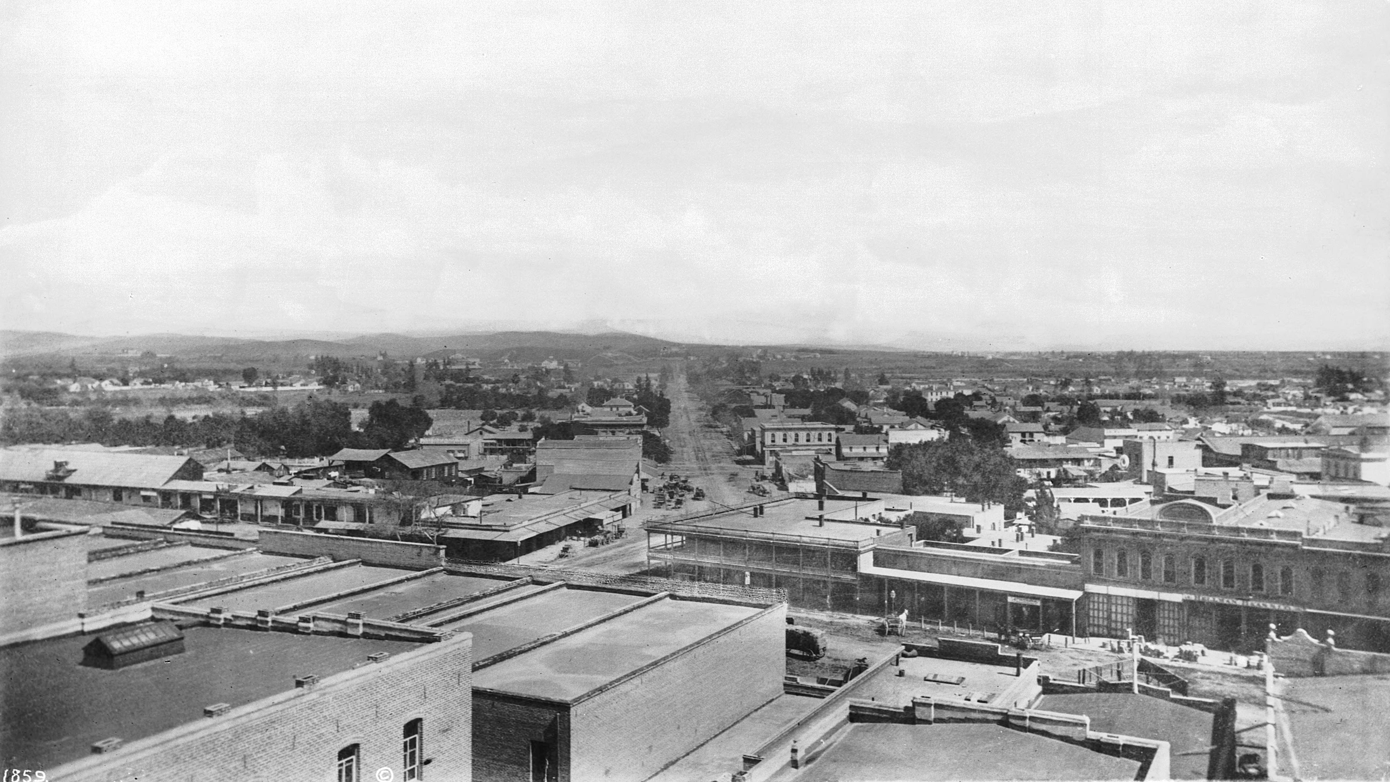 Photograph of General Fremont's headquarters and the first Los Angeles City Hall (Mellus Row) in the first plaza in Los Angeles on the southeast corner of Aliso Street and Los Angeles Street, Sonora Town, 1885. From Baker Block looking east. Captain Alexander Bell and Mellus lived here (Francis Mellus married a niece of Mrs. Bell's). It was taken over by General Fremont for his headquarters and thus became the state capital for the short period of his acting as governor. The Los Angeles City organization was formed in this building in 1850.; Streetscape. Horizontal photography.